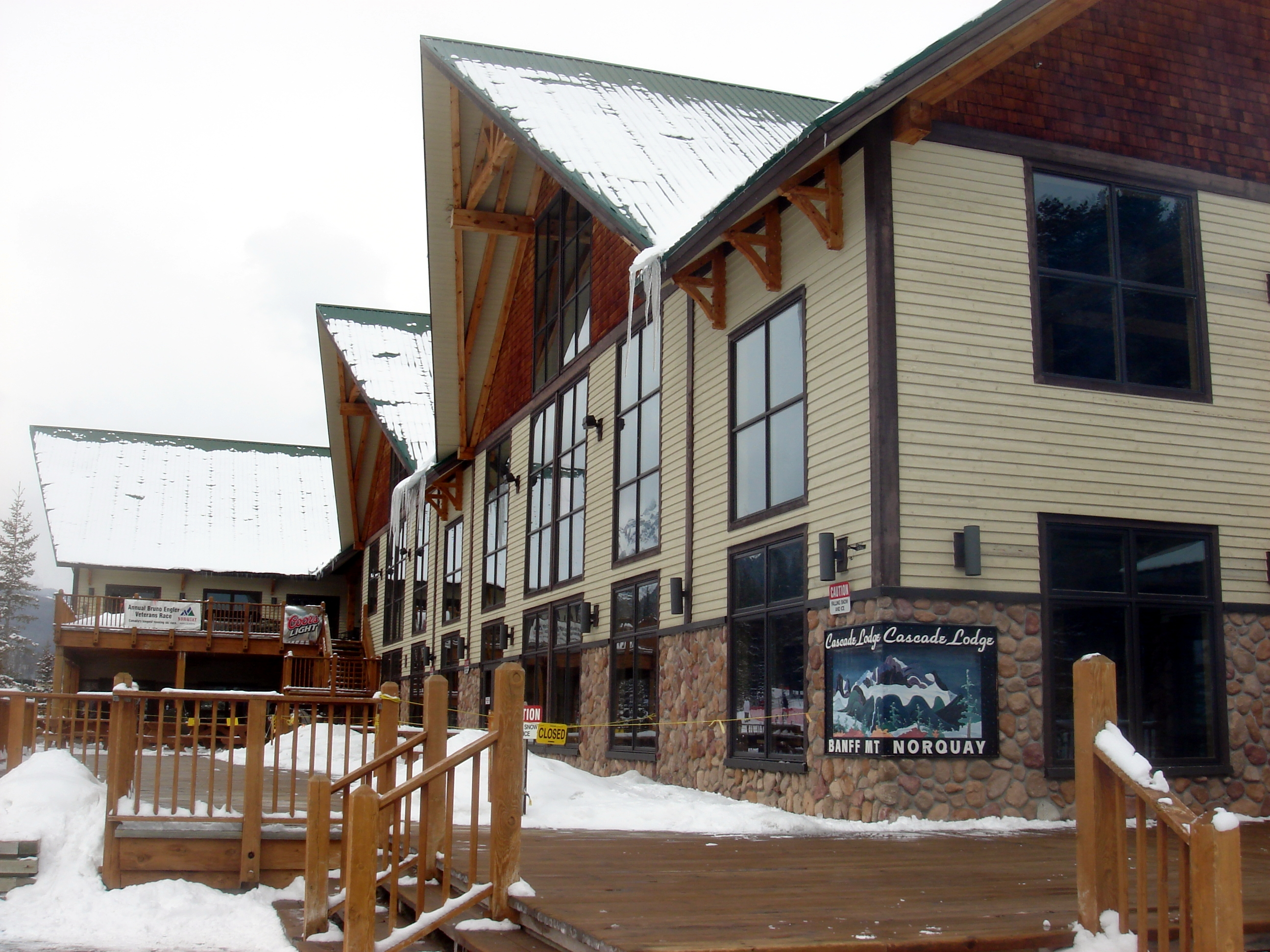 Mount Norquay lodge, in Banff National Park, Alberta, Canada